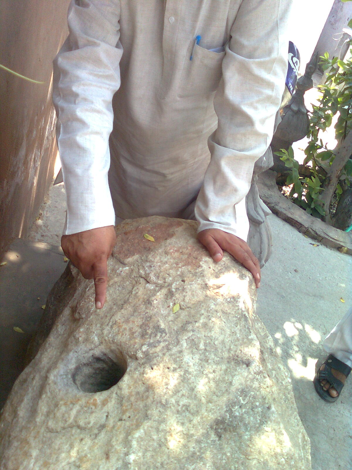 This is an image taken by me. The person indicating the hole made by Bhagat Singh in a huge piece of stone. Bhagat Singh used this BTStone at Nalgadha Village in 1928 for preparing a Bomb.